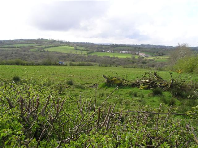 Tullanafoile Townland Looking south